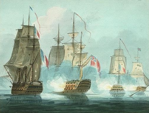 HMS Caesar engaging Mont Blanc at the Battle of Cape Ortegal, 4 November 1805